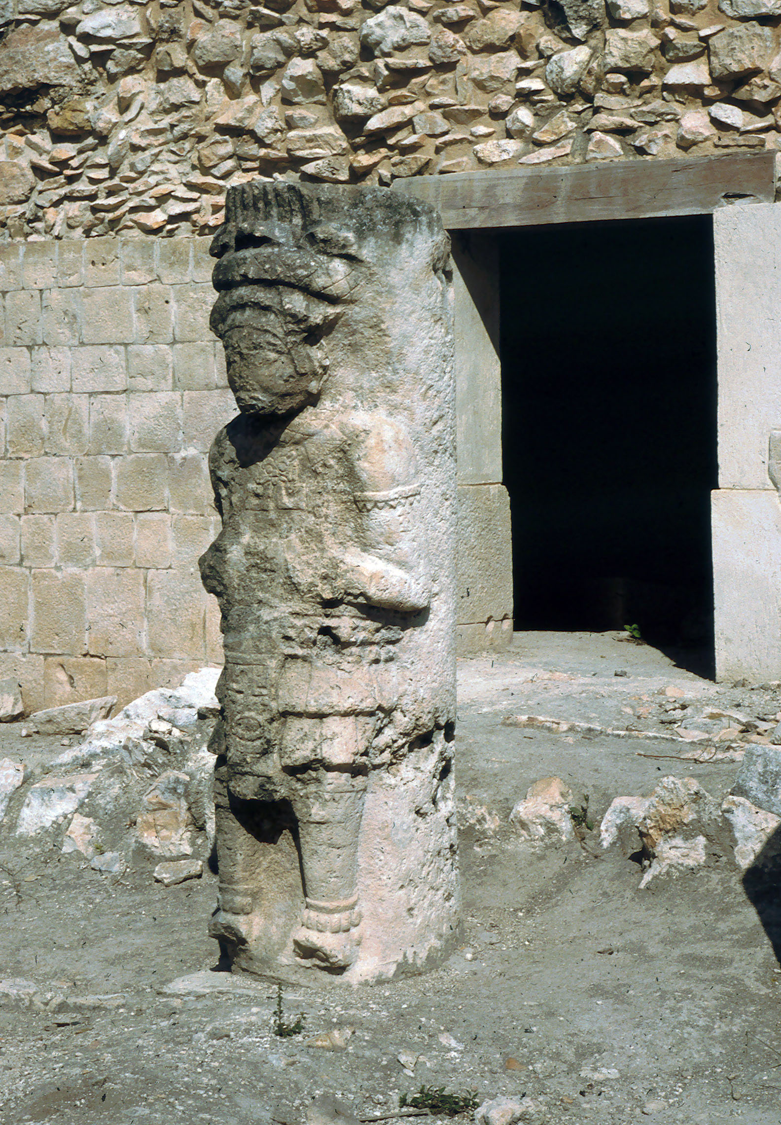 Oxkintoc, Yucatan, Mexico: Group Ah Canul, Chich Palace, sculptures column.